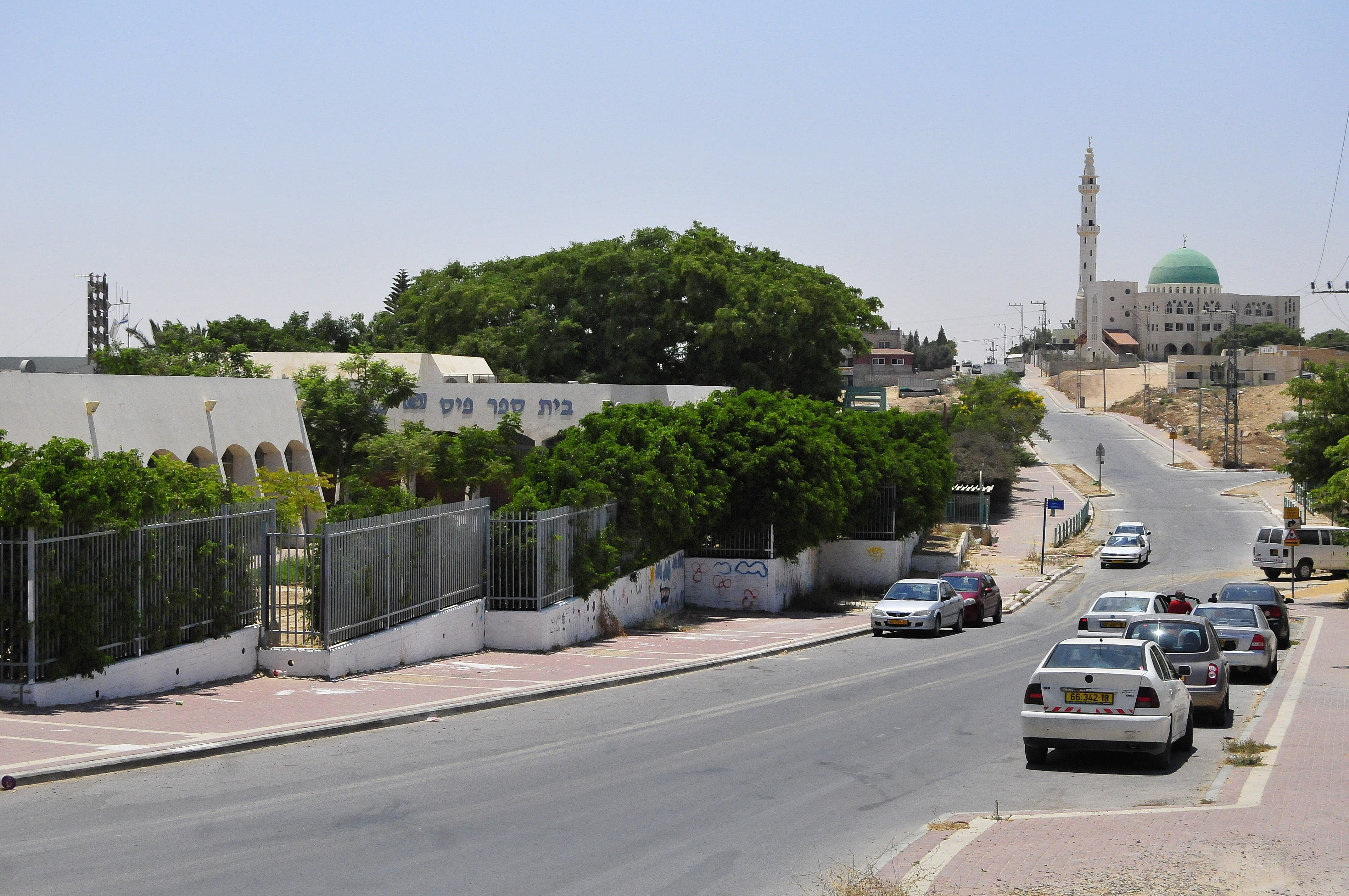 Hura's roads